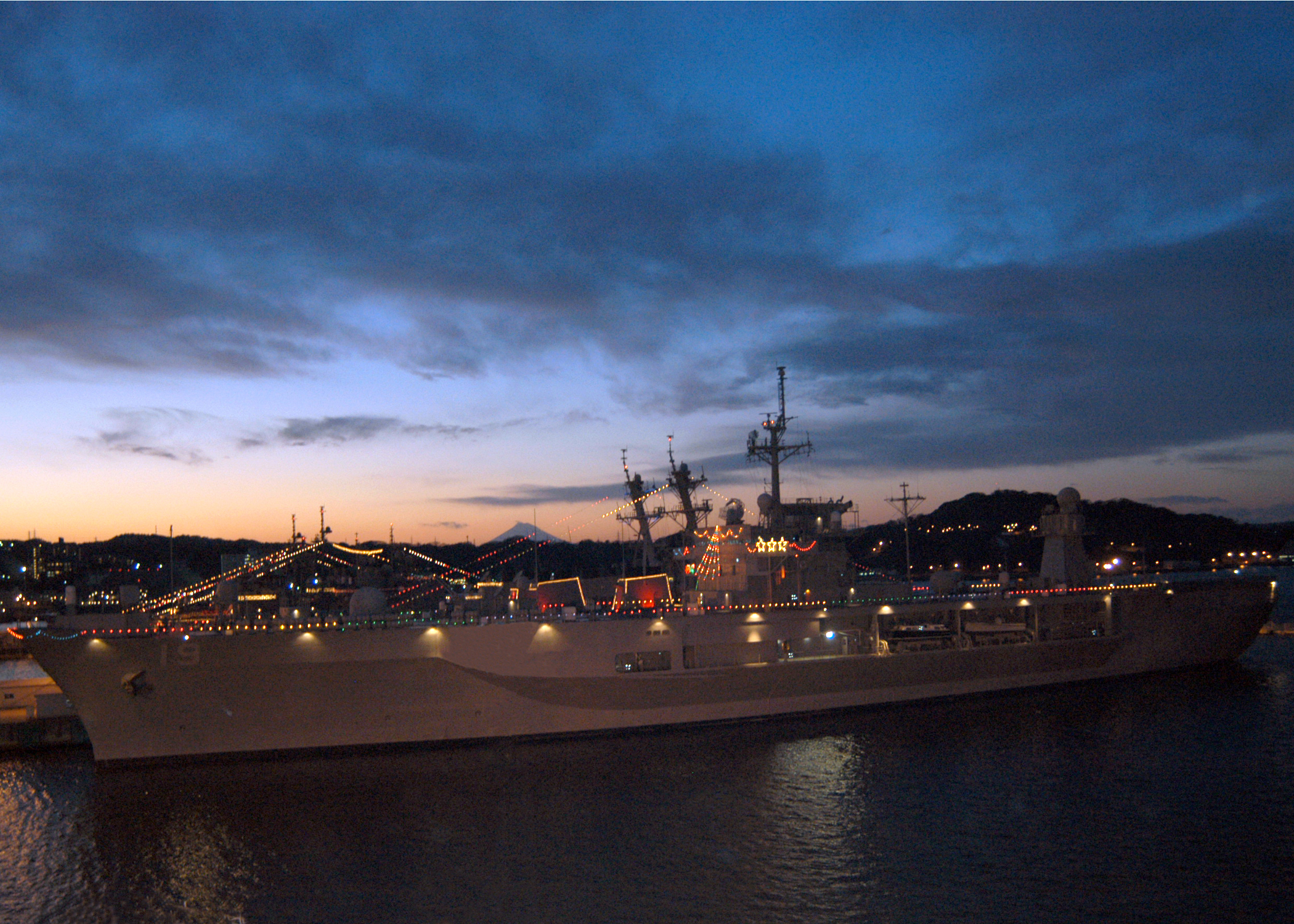 Yokosuka, Japan (Dec. 22, 2005) - Christmas lights outline the amphibious command and control ship USS Blue Ridge (LCC 19). Blue Ridge is the Seventh Fleet Command ship and is permanently forward deployed to Yokosuka, Japan. U.S. Navy Photo by Navy Journalist Seaman Marc Rockwell-Pate (RELEASED)